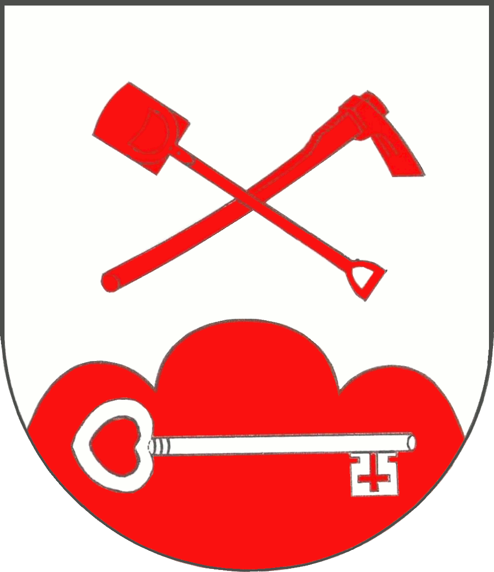 Coat of arms of the municipality Osterrade in Schleswig-Holstein, Germany.